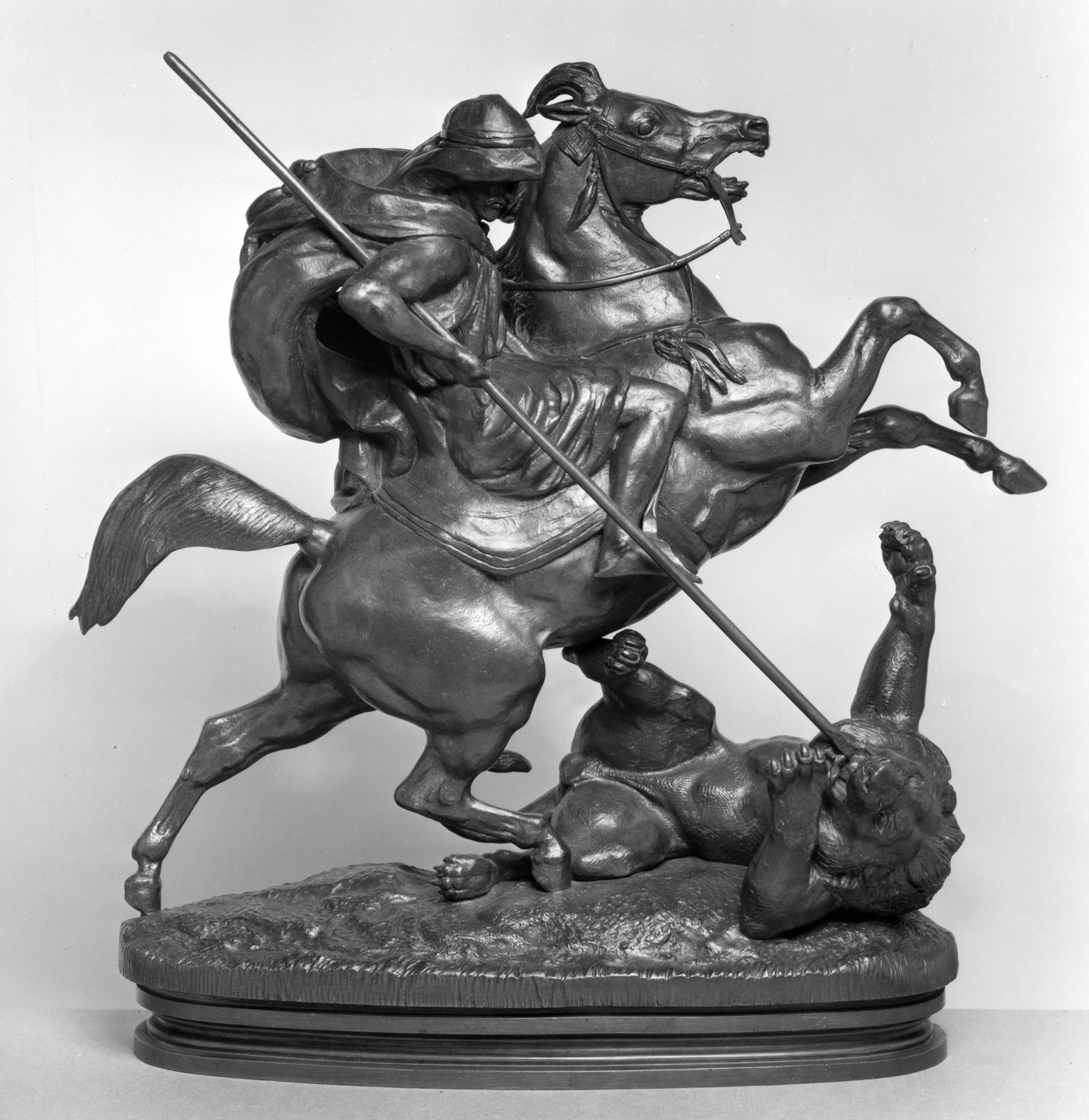 The base of this piece is cast separately.